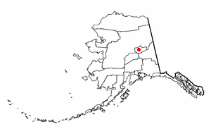 Adapted from Wikipedia's AK borough maps by Seth Ilys.